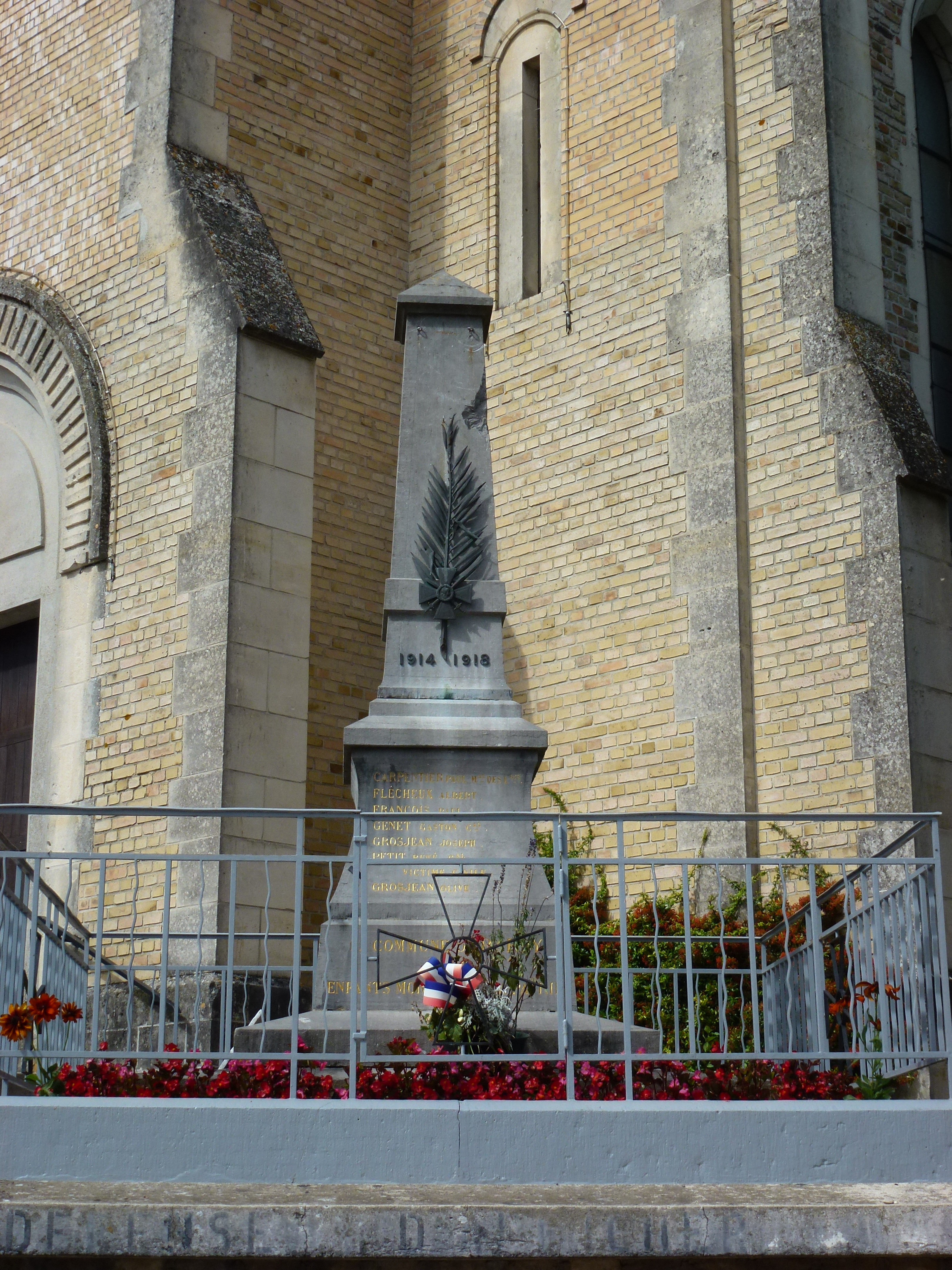 Barby (Ardennes) war memorial